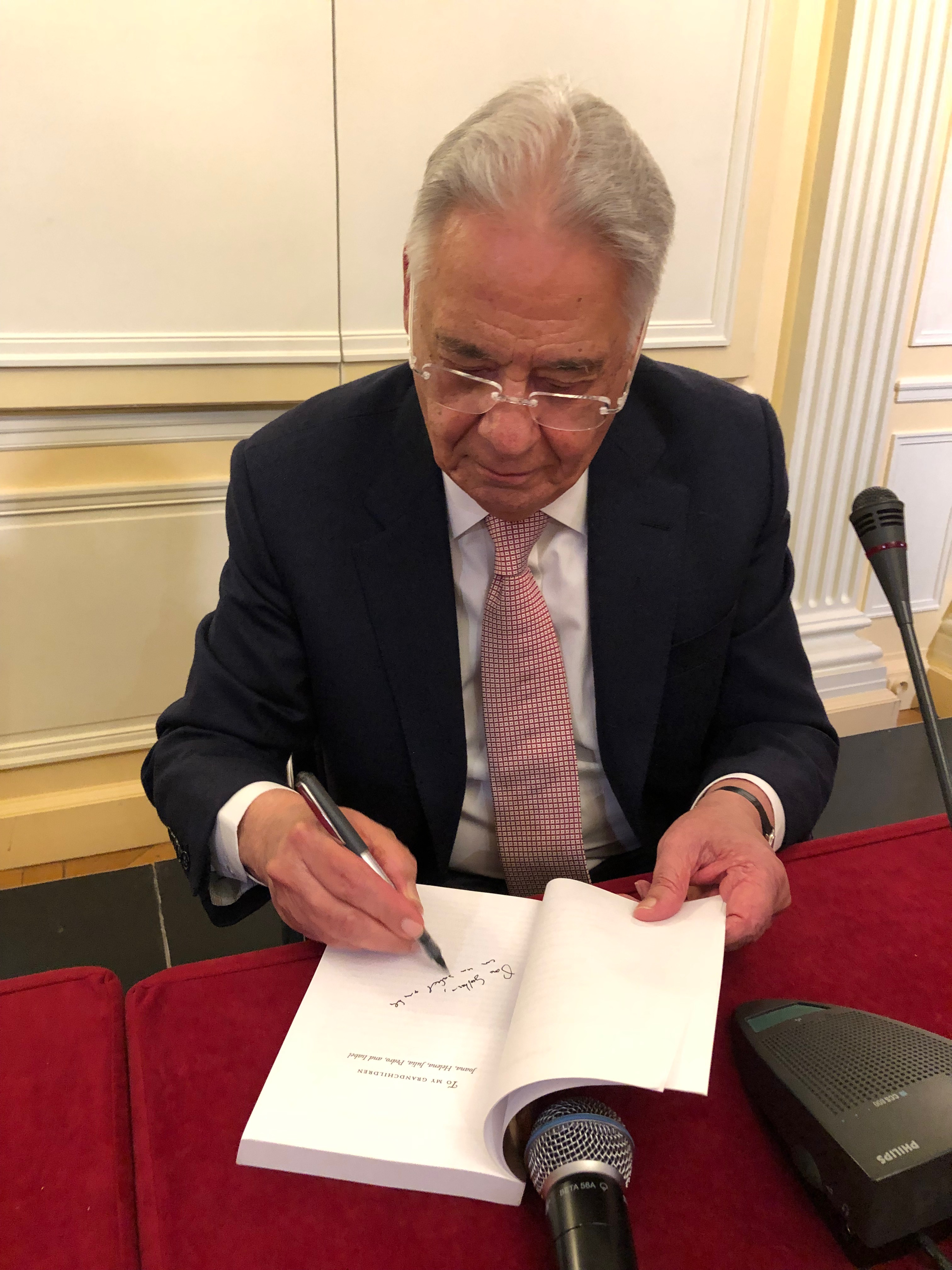 Former president of Brazil Fernando Henrique Cardoso.